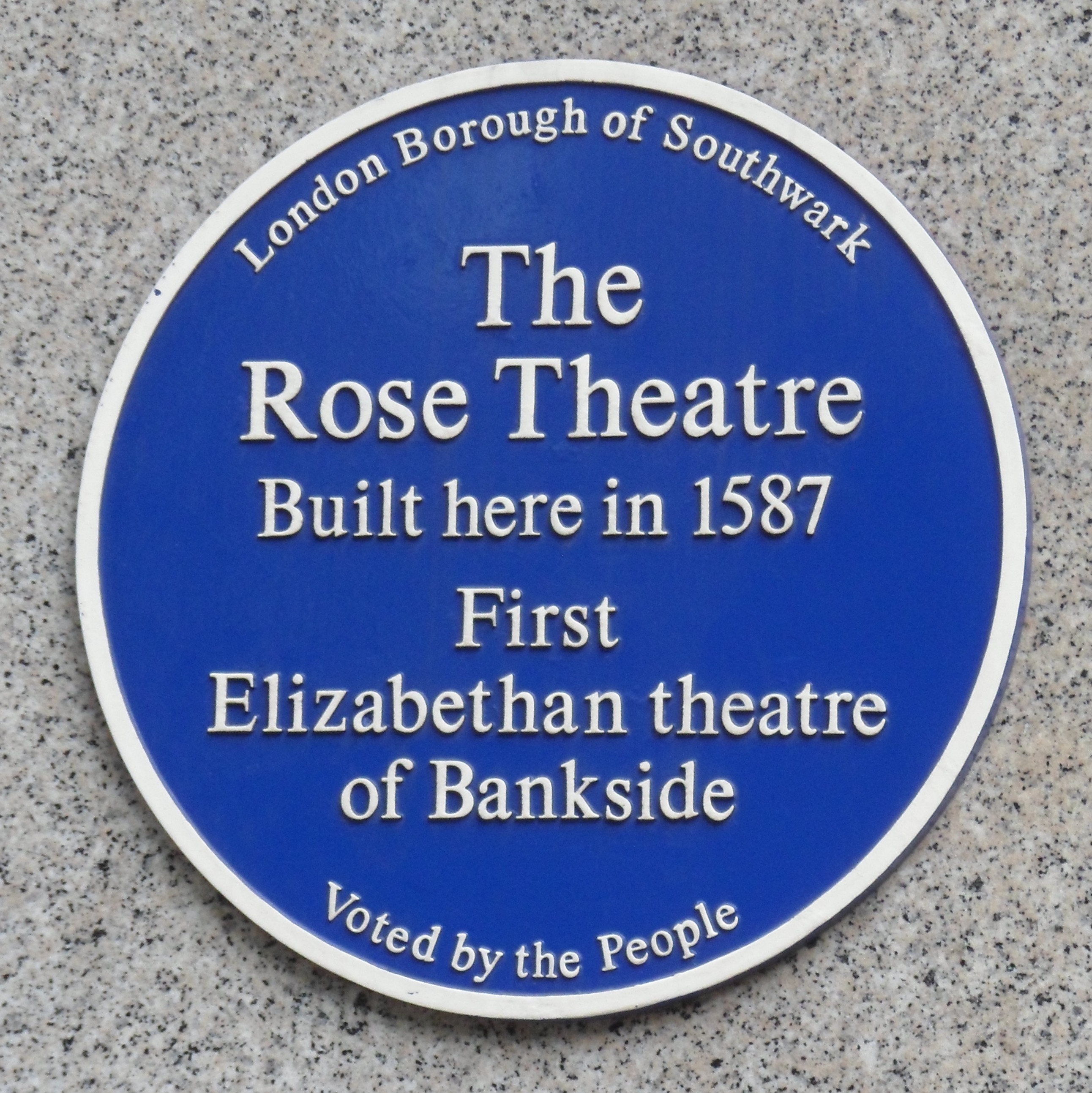 Photo by Robert Thursfield